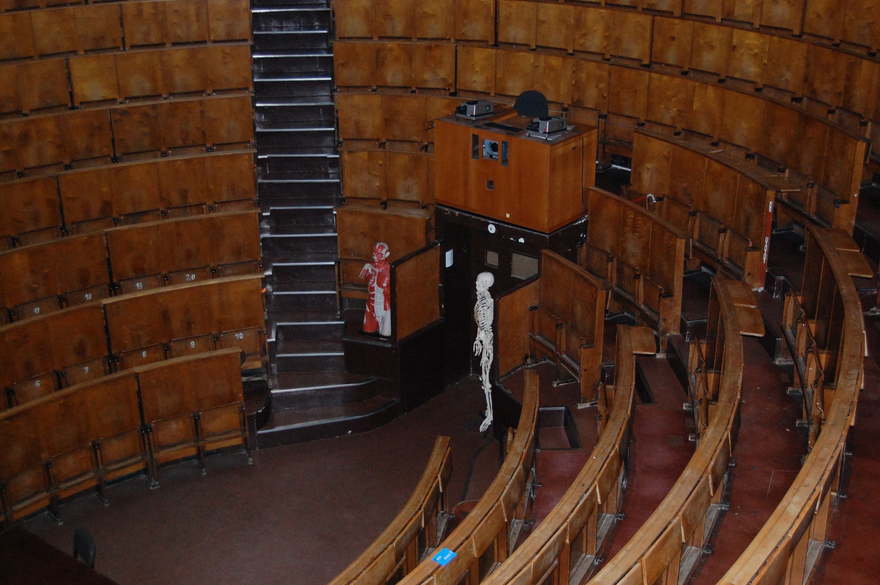 Lecture hall in the Anathomy buiding of Charite (University of Berlin)